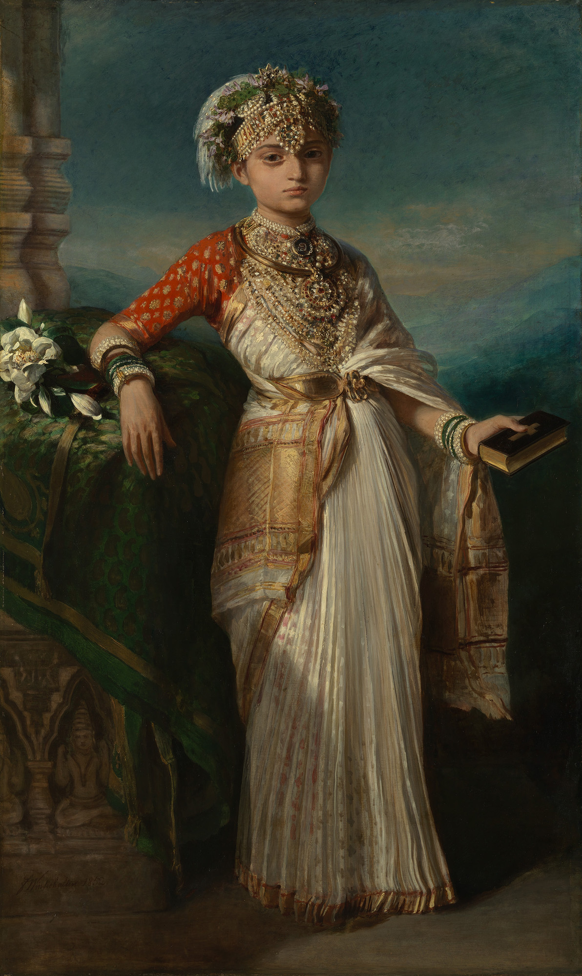 Princess Gouramma depicted in Indian dress and rich jewellery, leaning on an Indian table. She is holding a Bible, an allusion to her conversion to Christianity.